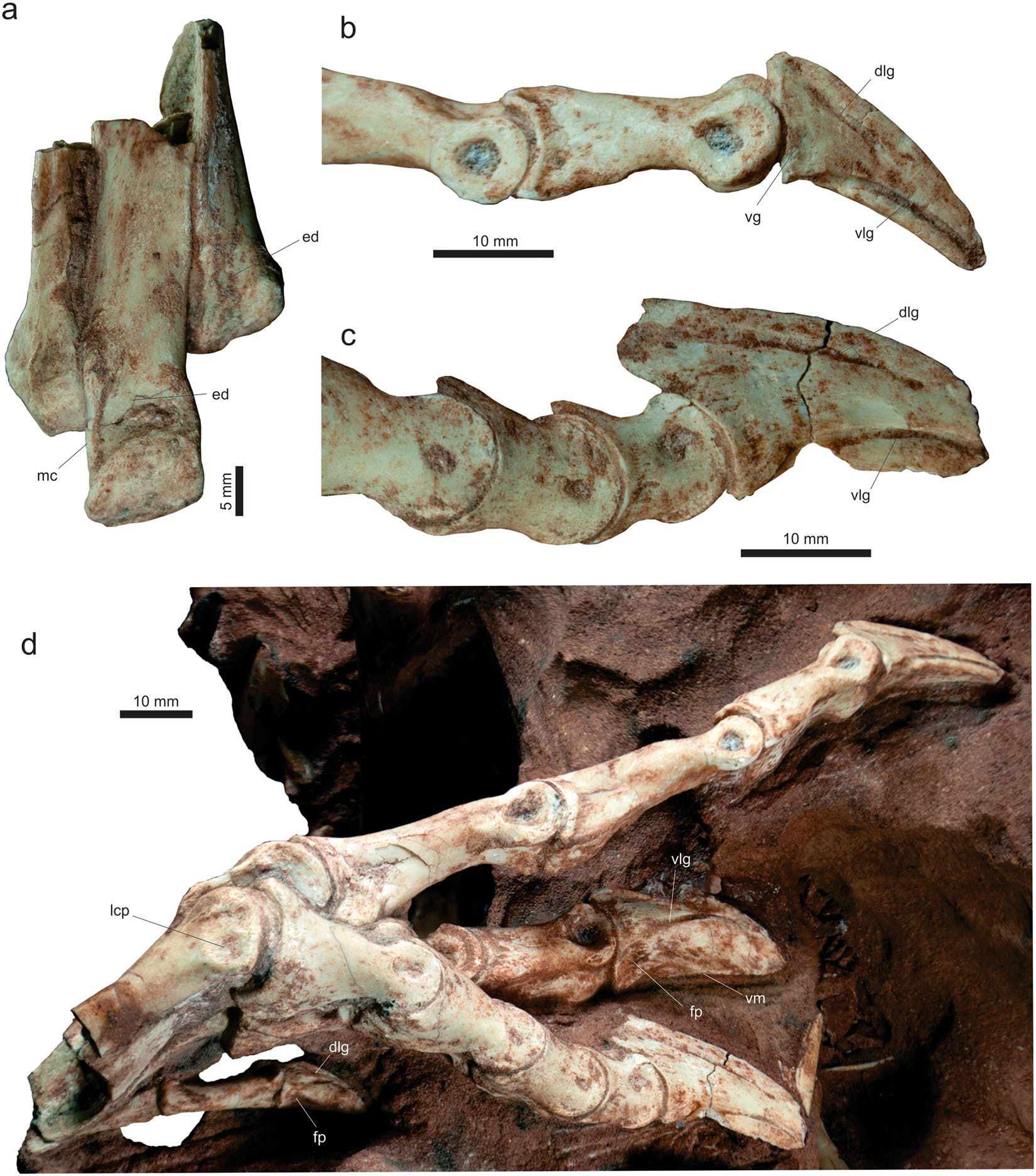 Holotype right pes of Vespersaurus paranaensis gen. et sp. nov. (MPCO.V 0065d1). (a) Distal end of metatarsal II-IV in dorsal view. (b) Distal part of digit II in lateral view. (c) Distal part of digit IV in lateral view. (d) Entire foot as preserved in lateral view. Anatomical abbreviations: ed, extensor depression; fd, flexor depression; lcp, lateral collateral pit; mc, lateral crest; plg, proximolateral groove; vg, vertical groove; vlg, ventral lateral groove; vm, ventral margin.